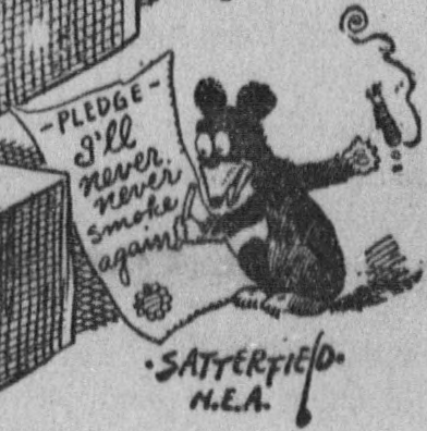 Editorial cartoon, "Uncle Sam's Christmas Smokers." The cartoon depicts Uncle Sam having received several cigars as Christmas presents; however, they are actually exploding cigars -- that is, various scandals in the United States.